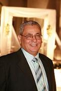 Haim Alush